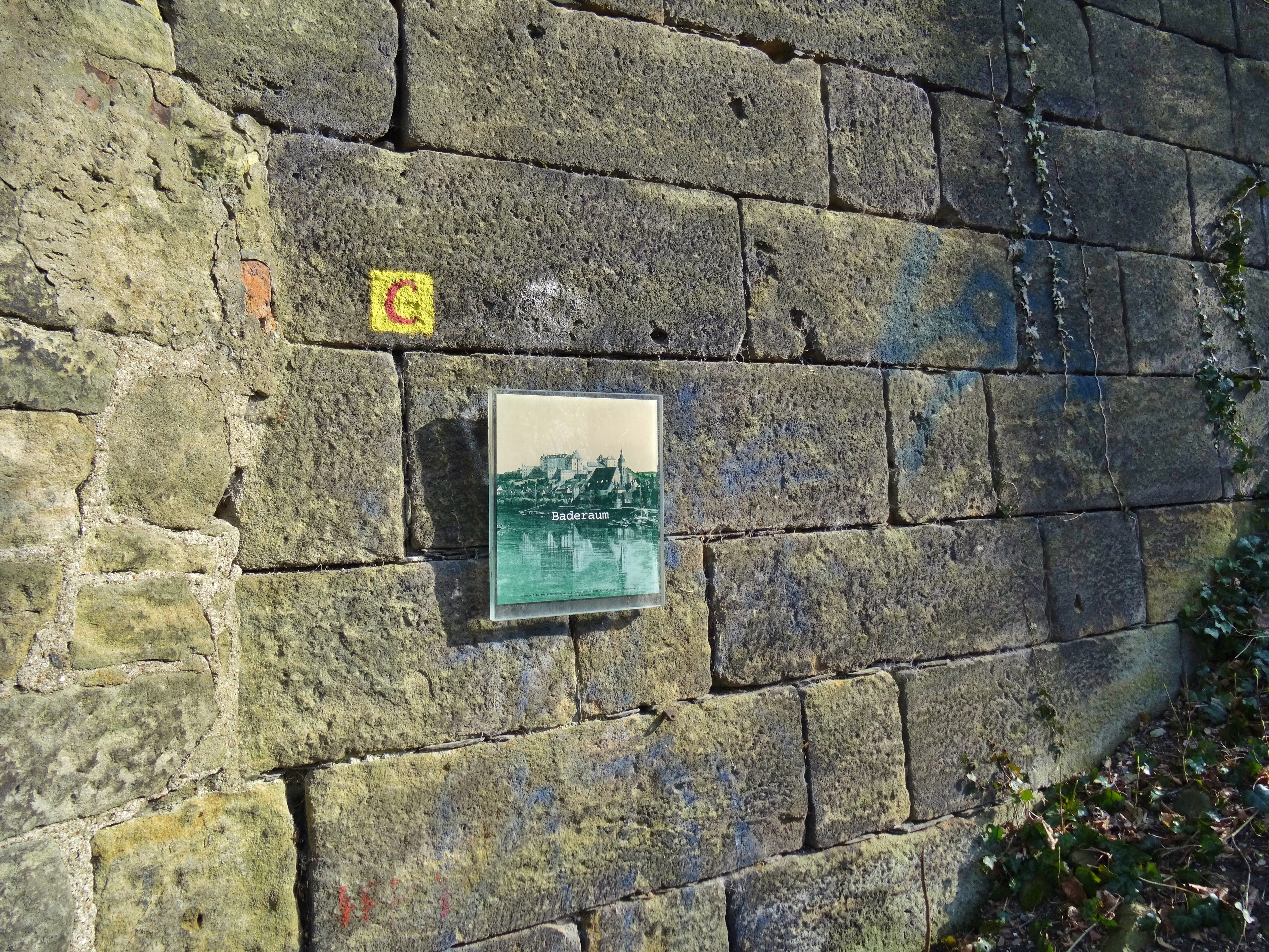 The Human rights memorial Castle-Fortress Sonnenstein in Pirna's old-town.